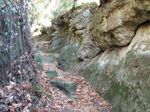 The Daibutsu Pass of Kamakura's Seven Entrances